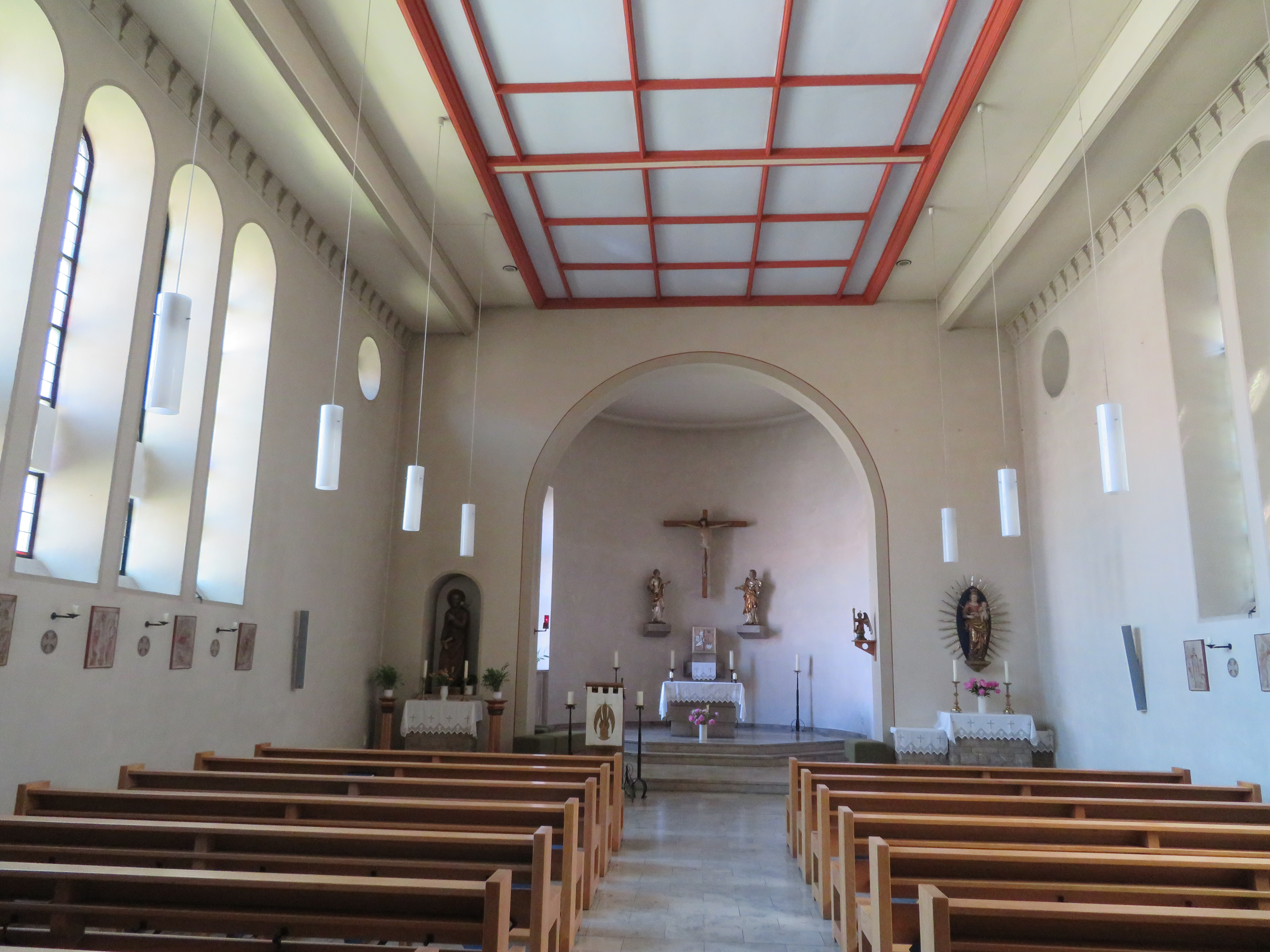 St. Joseph Church, Schöppenstedt, Lower Saxony, Germany